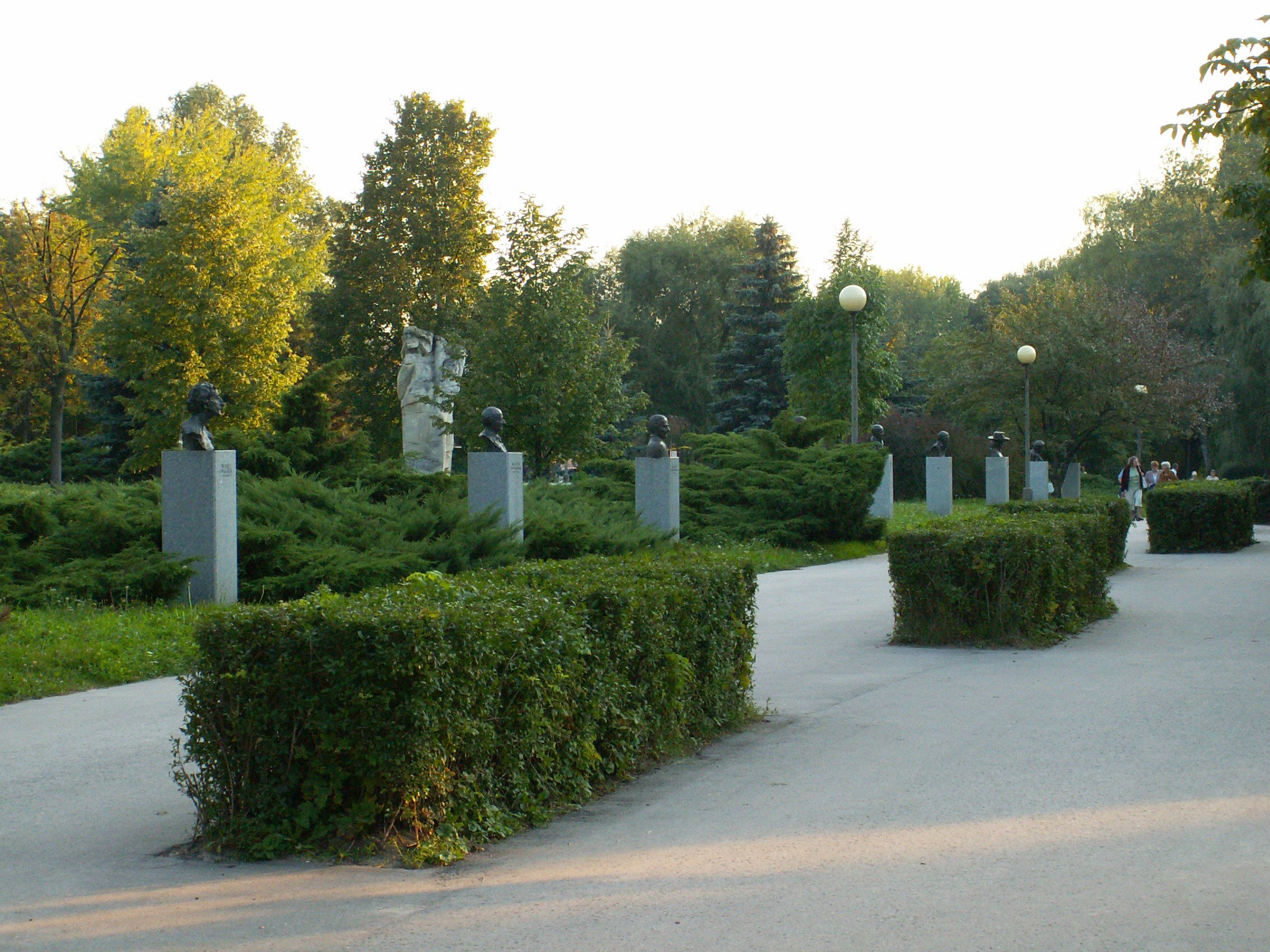 Celebrity Avenue square at Scout Square in Kielce (Poland)